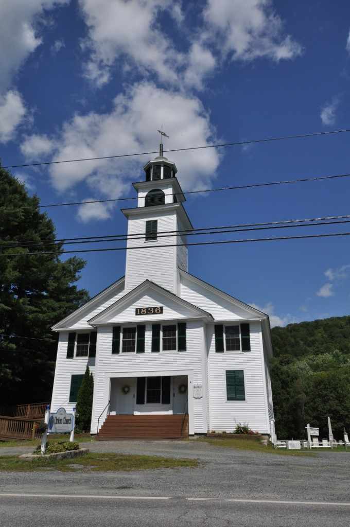 The Centre Village Meeting House (aka Union Church) in Enfield, New Hampshire